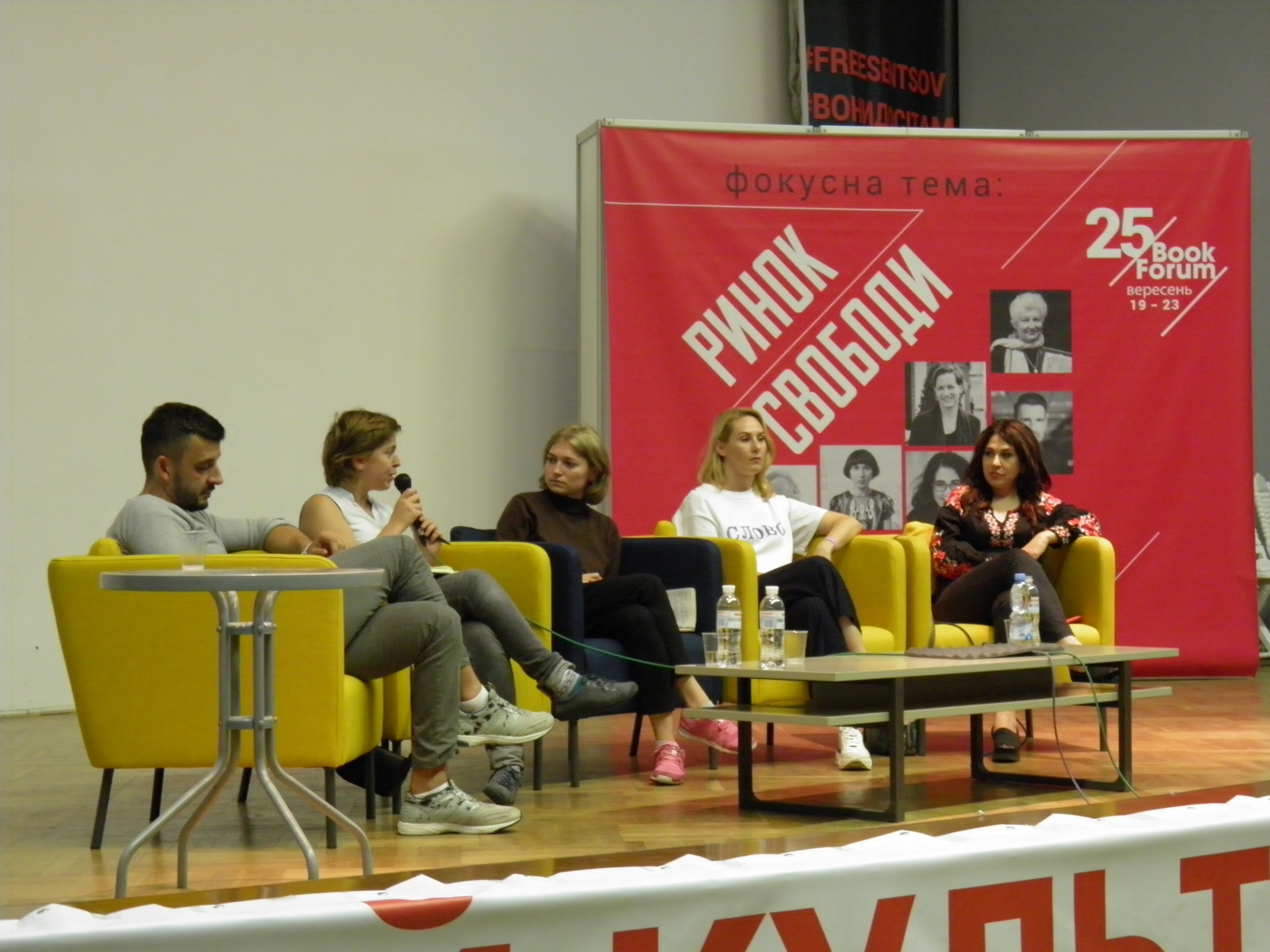 Publishers' Forum in Lviv 2018